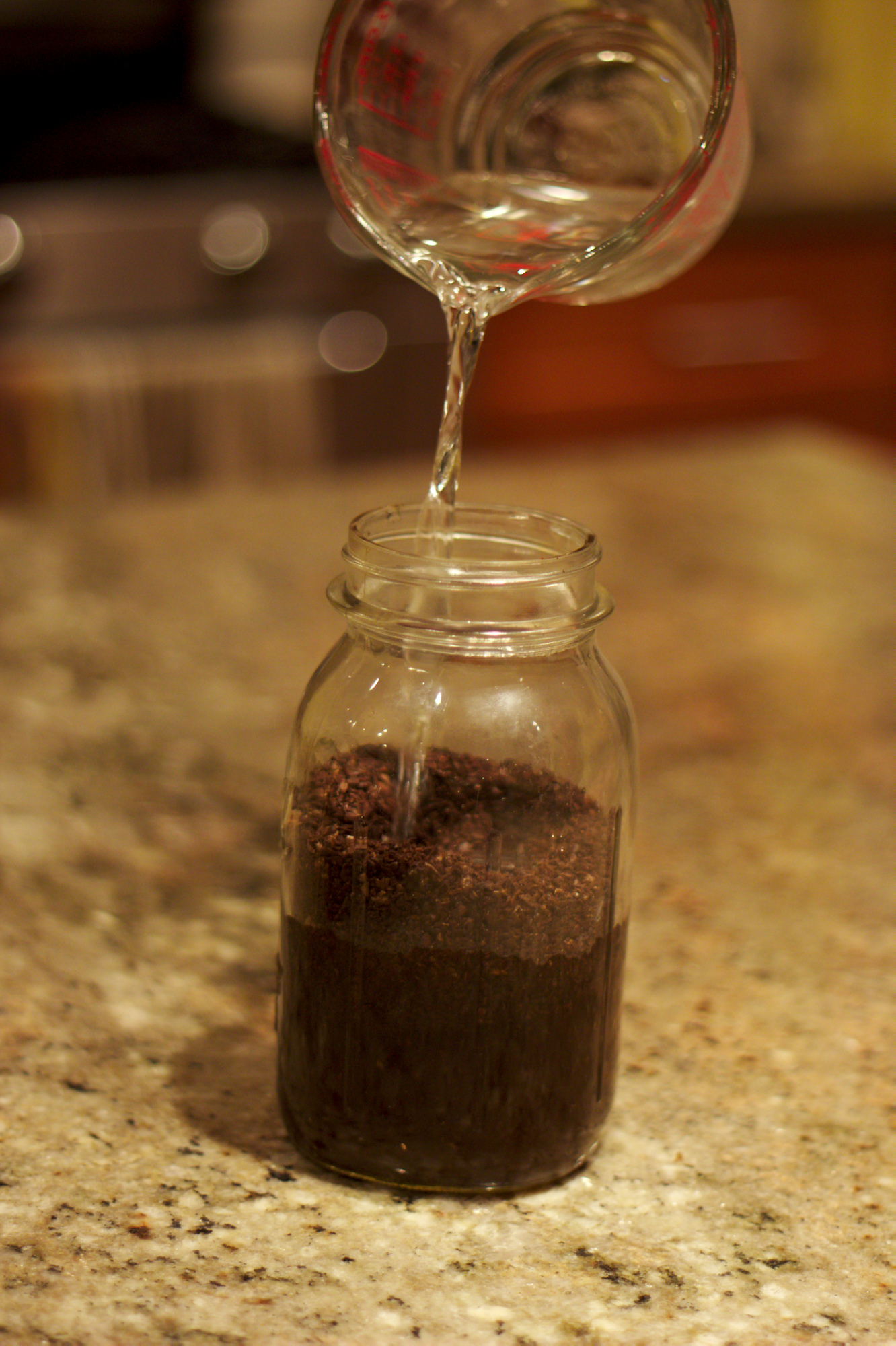 The preparation of cold brew coffee, roughly following the preparation process described by Cory Doctorow in the novel Homeland